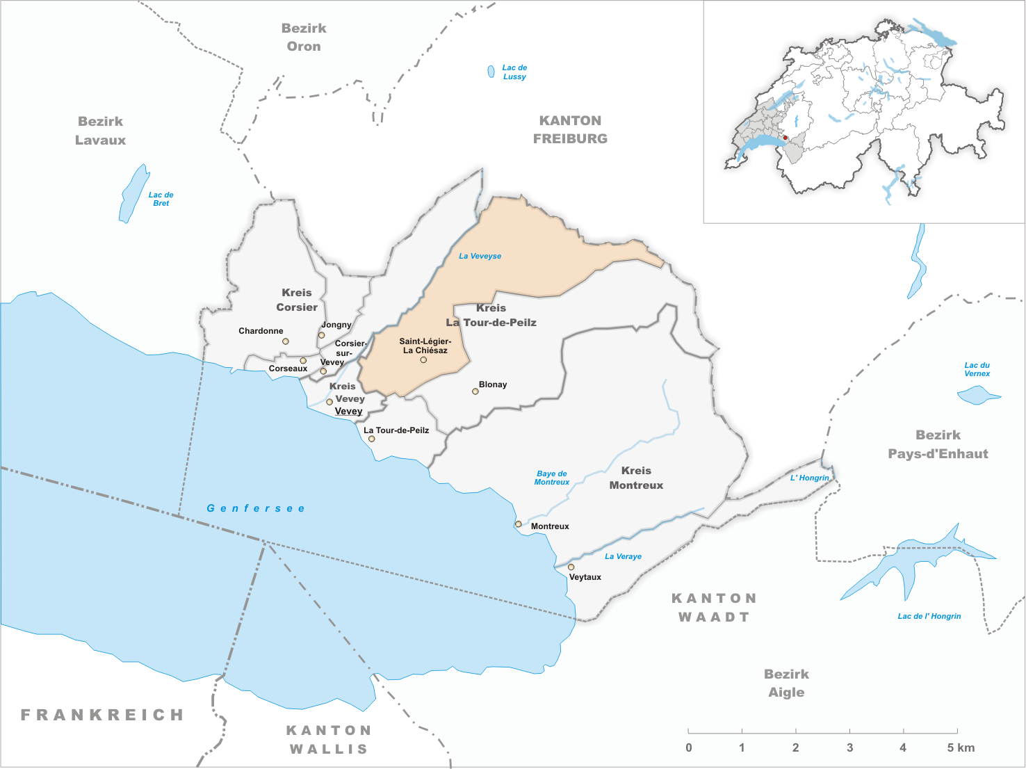 Municipality Saint-Légier-La Chiésaz